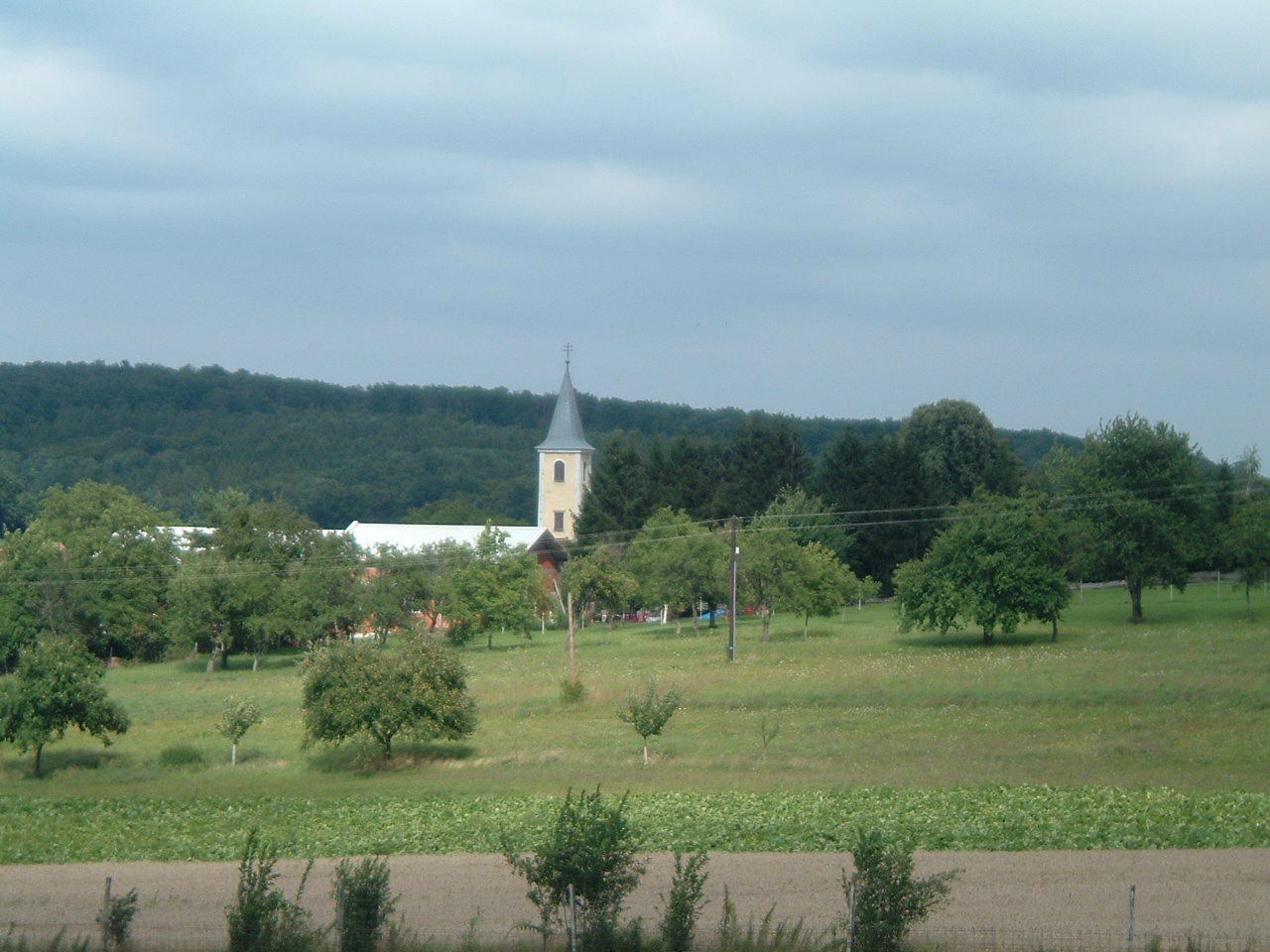 Sankt Kathrein im Burgenland (Pósaszentkatalin)